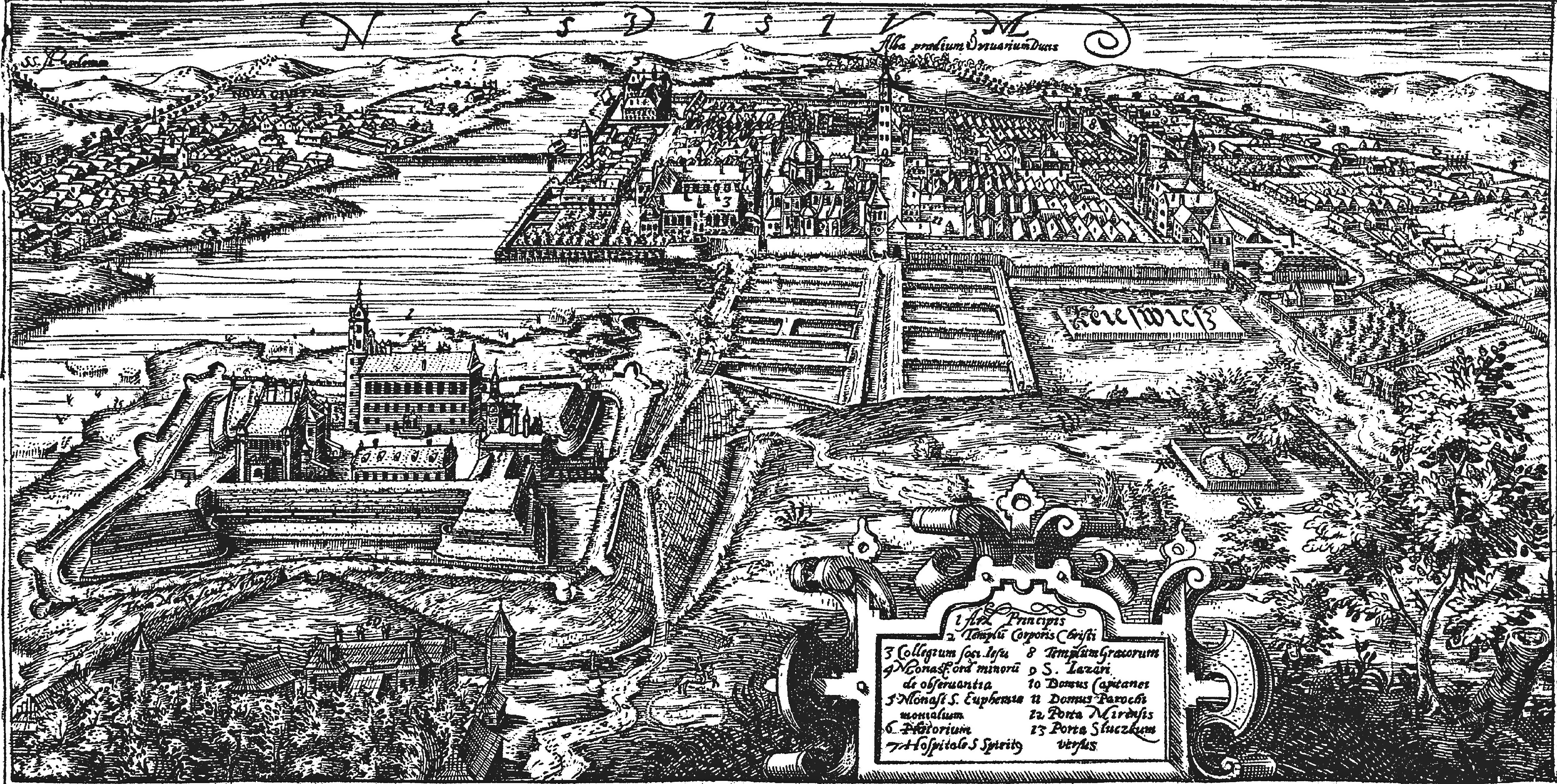 Niasvizh in 17s century